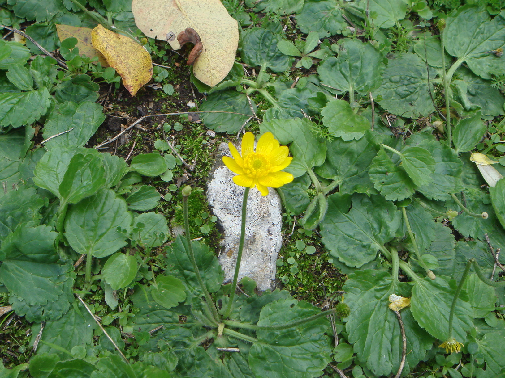 Buttercup in Cádiz province, Spain.